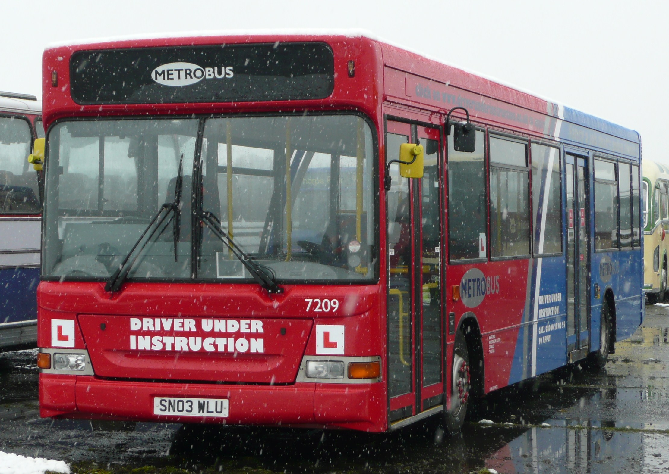 A Metrobus (Crawley) driver trainer bus, showing the livery used.